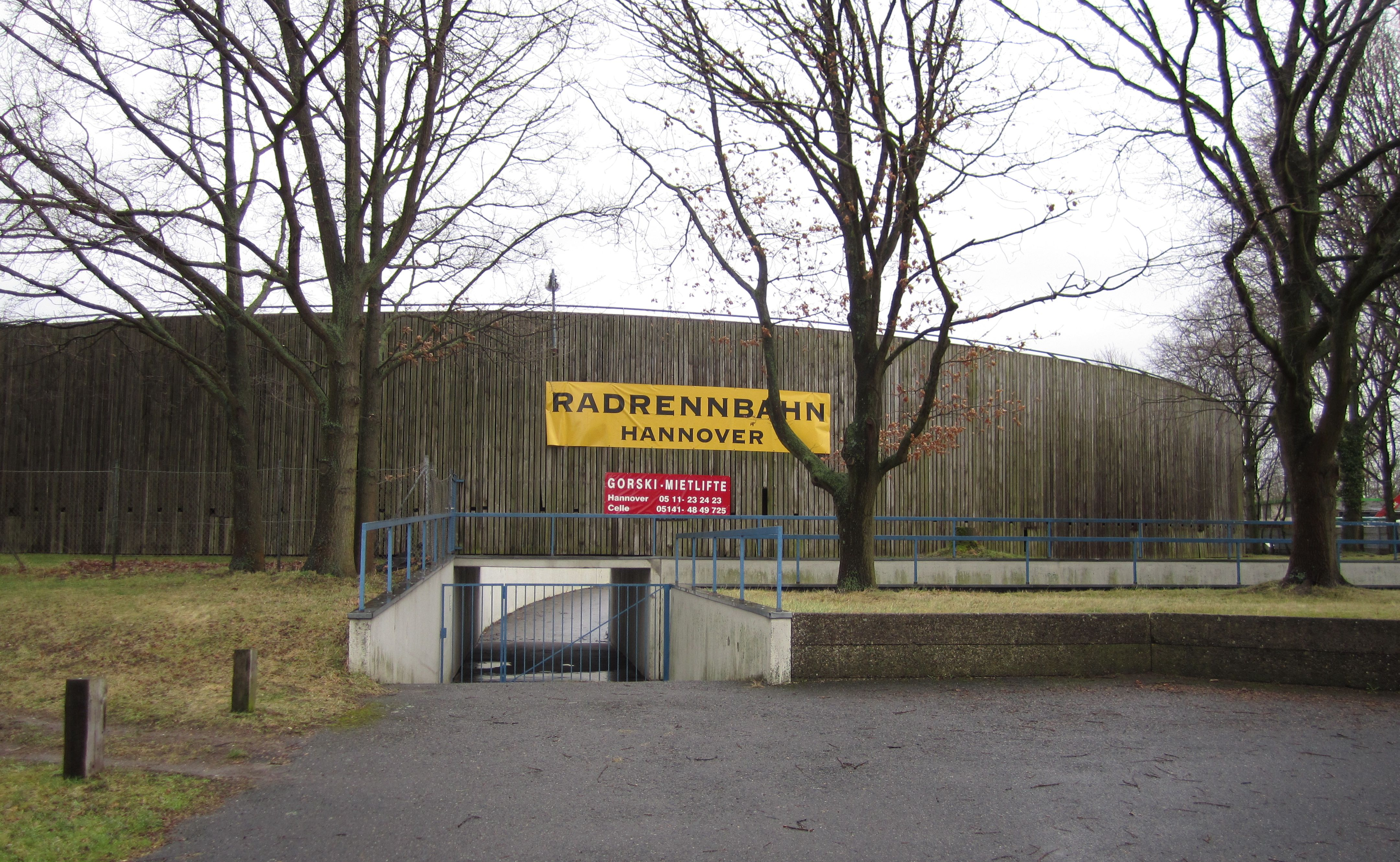 Velodrome in Hanover.